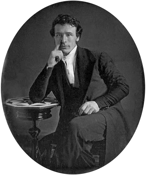 John Jabez Edwin Mayall, three-quarters length portrait